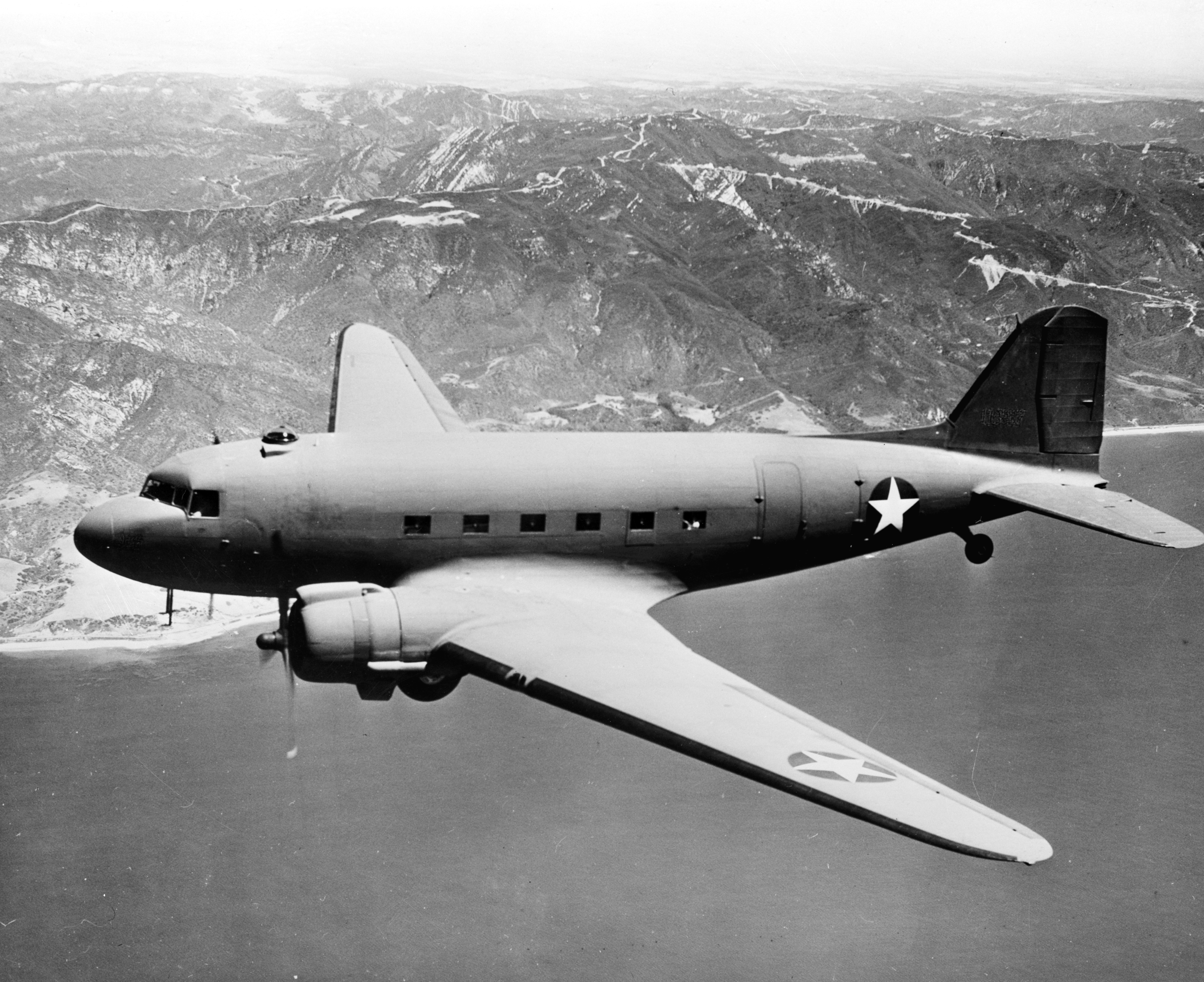 A USAAF Douglas C-47 transport plane in flight, ca. late 1942/early 1943. Note that the wartime censor has removed the serial number.